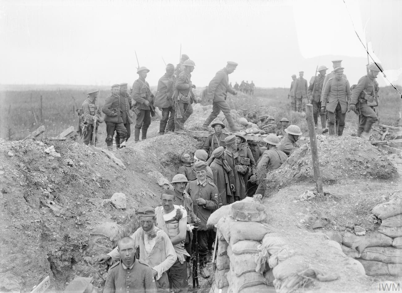 The Battle of the Somme, July-november 1916 Battle of Albert. Escort of 10th Battalion, Worcestershire Regiment bringing in German prisoners captured during the attack on La Boisselle, 3rd July 1916.